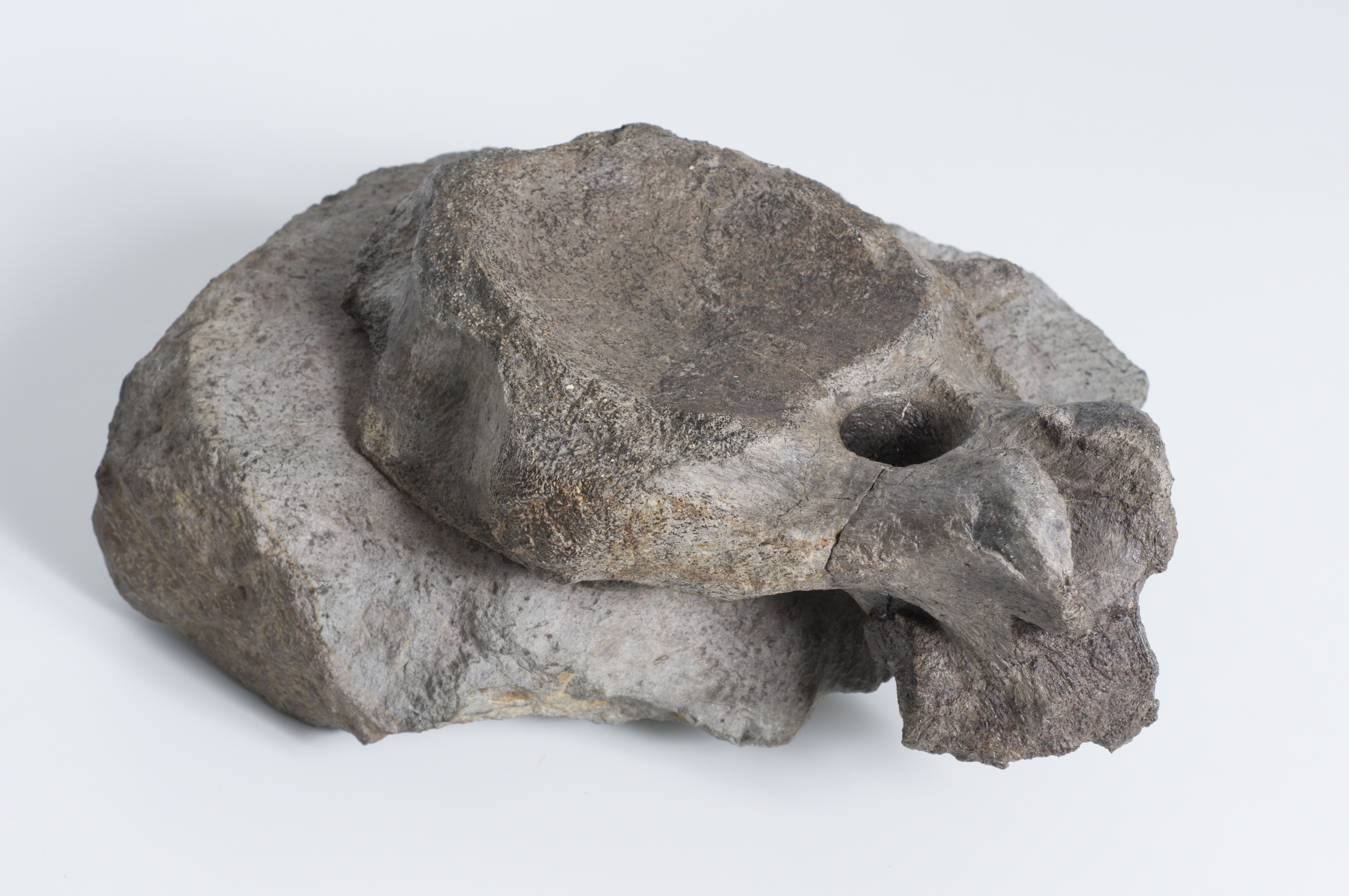 Author Photographed by: York Museums Trust StaffTitle Sauropod fossil, 'Alan the Dinosaur'Date 176 million years oldMedium sandstoneDimensions Whole height=14.7 cmCollection Yorkshire Museum Native nameYorkshire MuseumParent institutionYork Museums TrustLocationYork, England, United KingdomCoordinates53° 57′ 42.48″ N, 1° 05′ 14.78″ W Established1830Web pageOfficial siteAuthority control : Q2086562 VIAF: 131438444 ISNI: 0000 0001 2158 9166 LCCN: n86847797 Historic England: 1257100 SUDOC: 032523386 WorldCat institution QS:P195,Q2086562Current location GeologyAccession number YORYM : 2001.9337Object history Found in Whitby, 1995Exhibition history On display at the Yorkshire MuseumCredit line Image courtesy of York Museums TrustReferences Manning, P.L.; Egerton, V.M.; Romano, M. (2015). "A New Sauropod Dinosaur from the Middle Jurassic of the United Kingdom". PLoS ONE. 10 (6). This file originated on the York Museums Trust Online Collection. YMT hosted a GLAMwiki partnership in 2013/14. This tag does not indicate the copyright status of the attached work. A normal copyright tag is still required. See Commons:Licensing for more information.